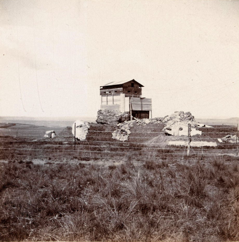 British Blockhouse during the Boer war. National Army Museum accession number 1985-09-14-312